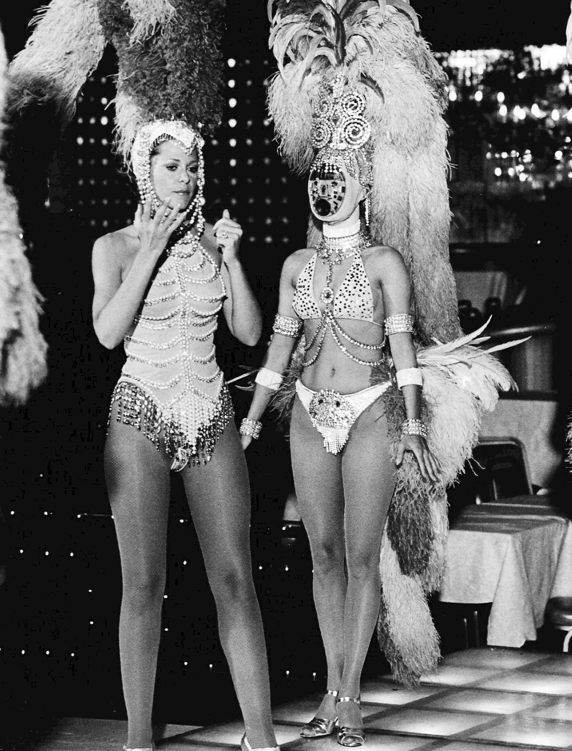 Photo of Lindsay Wagner as Jaime Sommers from the science fiction television program The Bionic Woman. In this episode, Jaime poses as a Las Vegas showgirl to get information on an army of female robots an evil scientist is building.